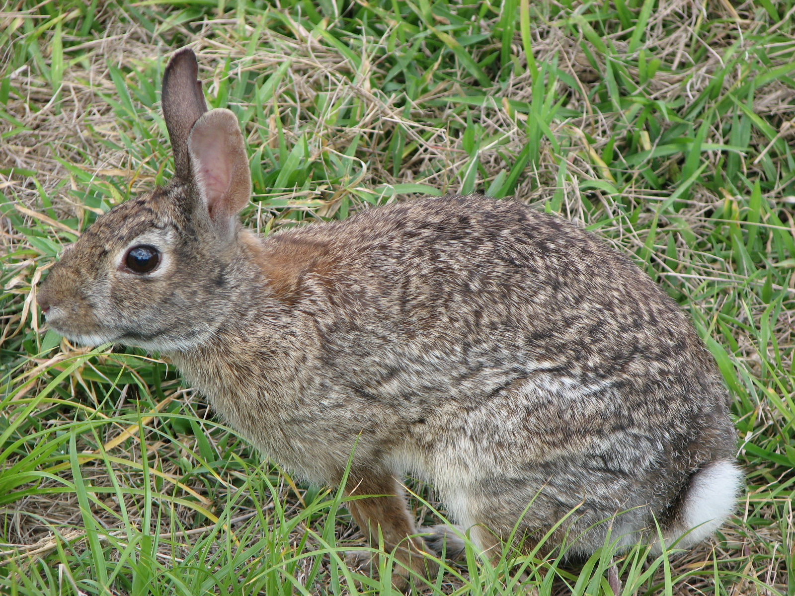 Rabbit